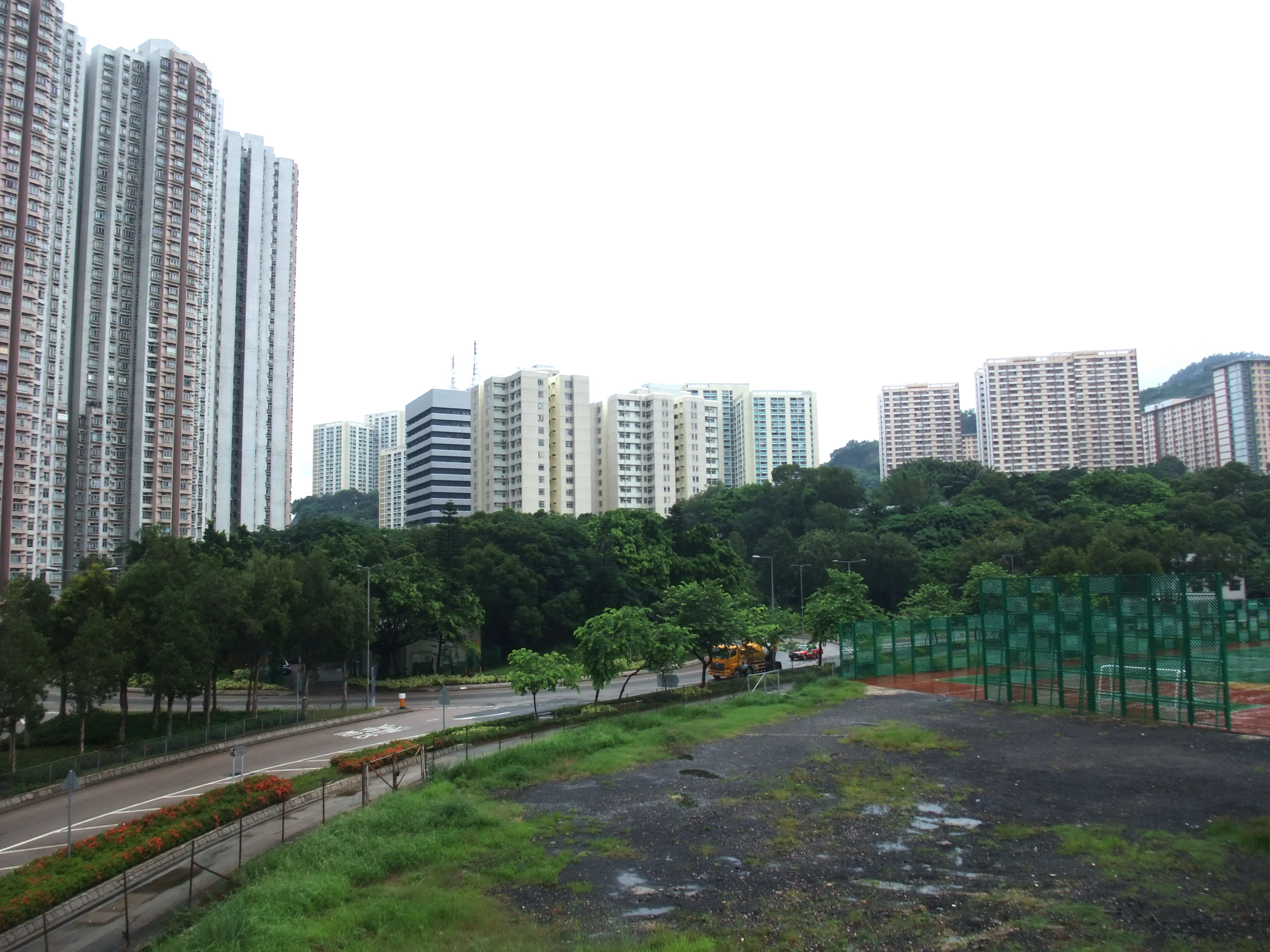 Tsing King Road and Fung Shue Wo Road Interchange, Hong Kong.Unknown 青敬路連接到楓樹窩路交匯處。